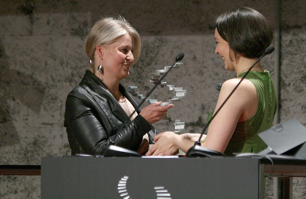 Martina List and Barbara Romaner; Austrian Film Awards 2012 (Vienna).